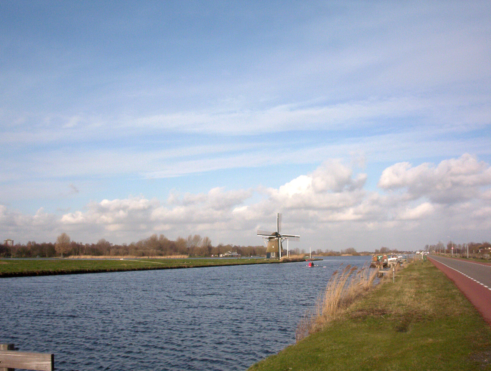 View of windmill de Hommel on the corner of the ringvaart and the lake Molenplas, built in 1860 to keep the water level of the Schalkwijk polder steady. The windmill is located on the other side of the ringvaart from the Haarlemmermeer polder. This picture shows on the right the ringvaart dike for cars and cyclists. On the right of that in the distance, trees are growing in a piece of the Stelling van Amsterdam.